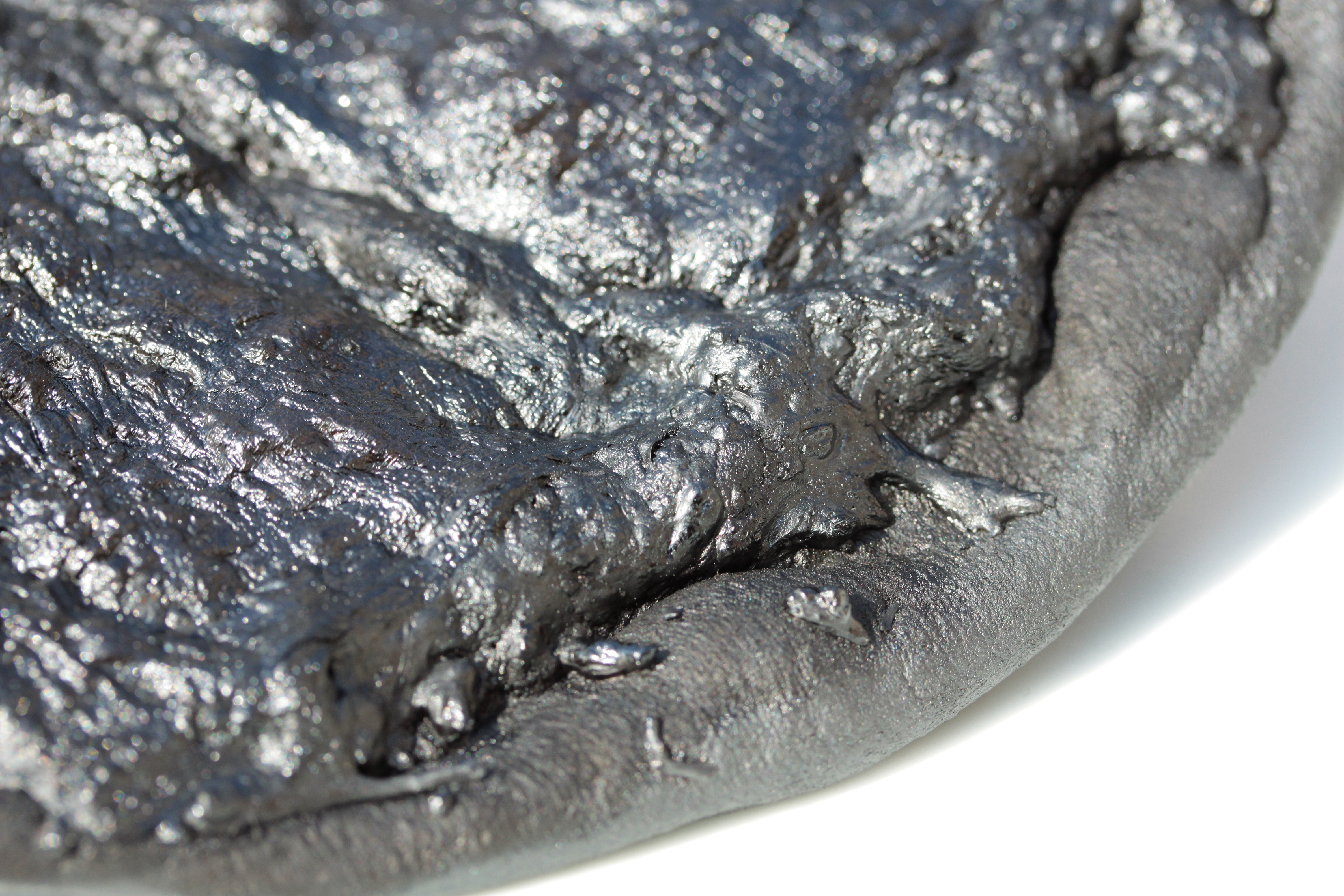 forgotten in the oven and thus (after about 4 hours baking time and a lot of smoke) completely charred frozen pizza (on a clean plate, outdoors)